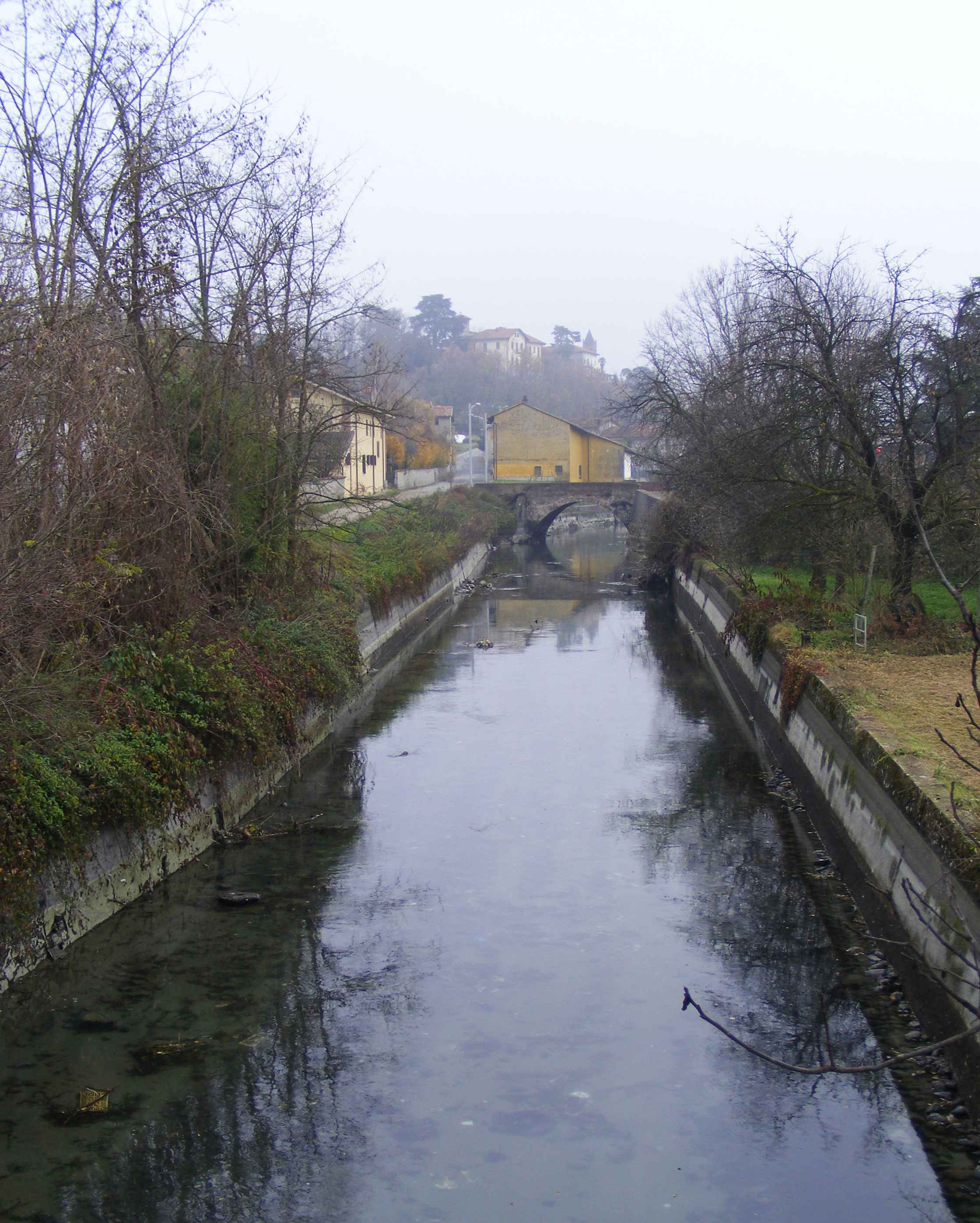 Naviglio di Ivrea in Borgomasino (TO, Italy)